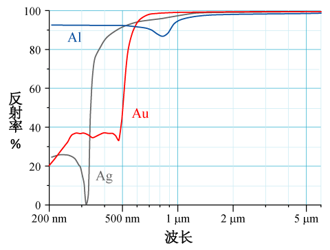 Reflectance vs. wavelength curves for aluminium (Al), silver (Ag), and gold (Au) metal mirrors at normal incidence. For optical coating.